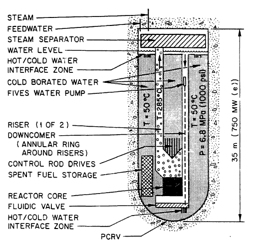 Schematic of Process Inherent Ultimate Safety Boiling- Water Reactor